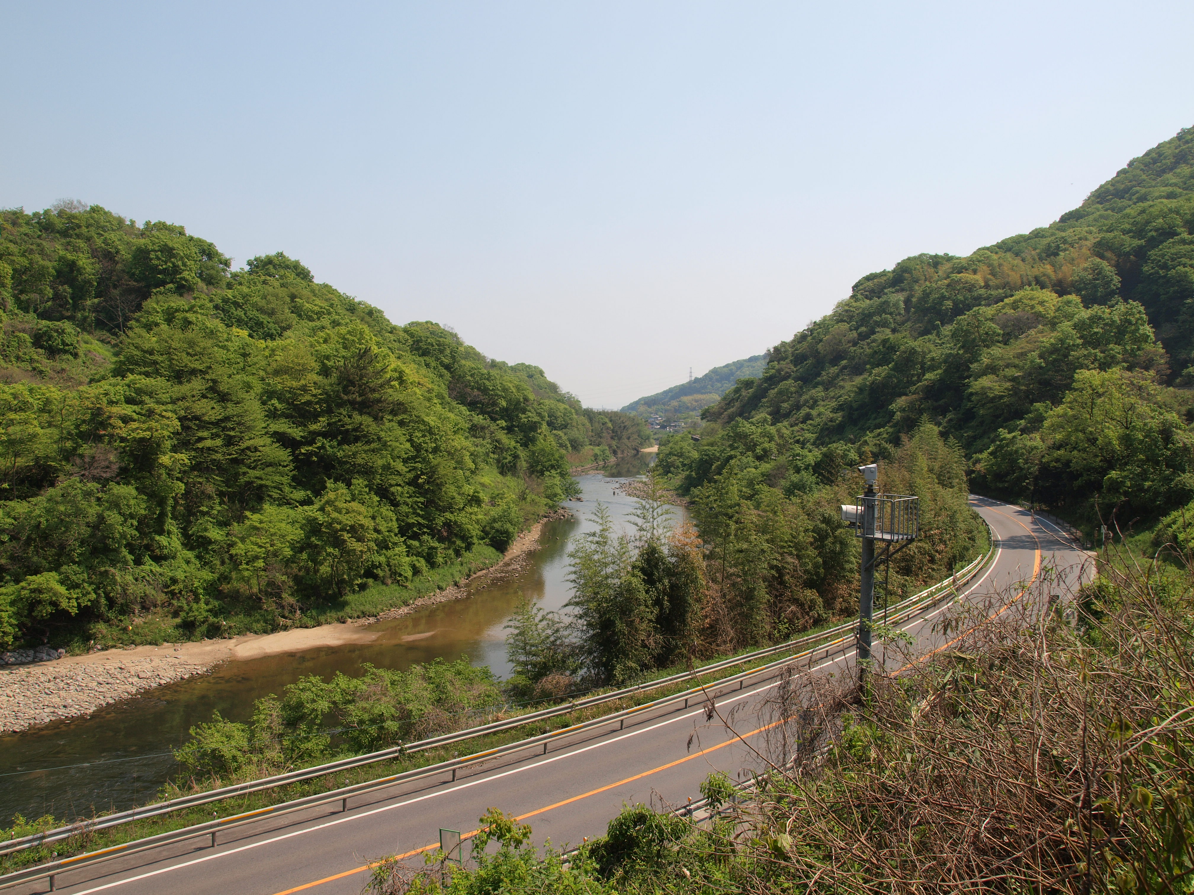 Yamato River in Kashiwara, Osaka and Oji, Nara